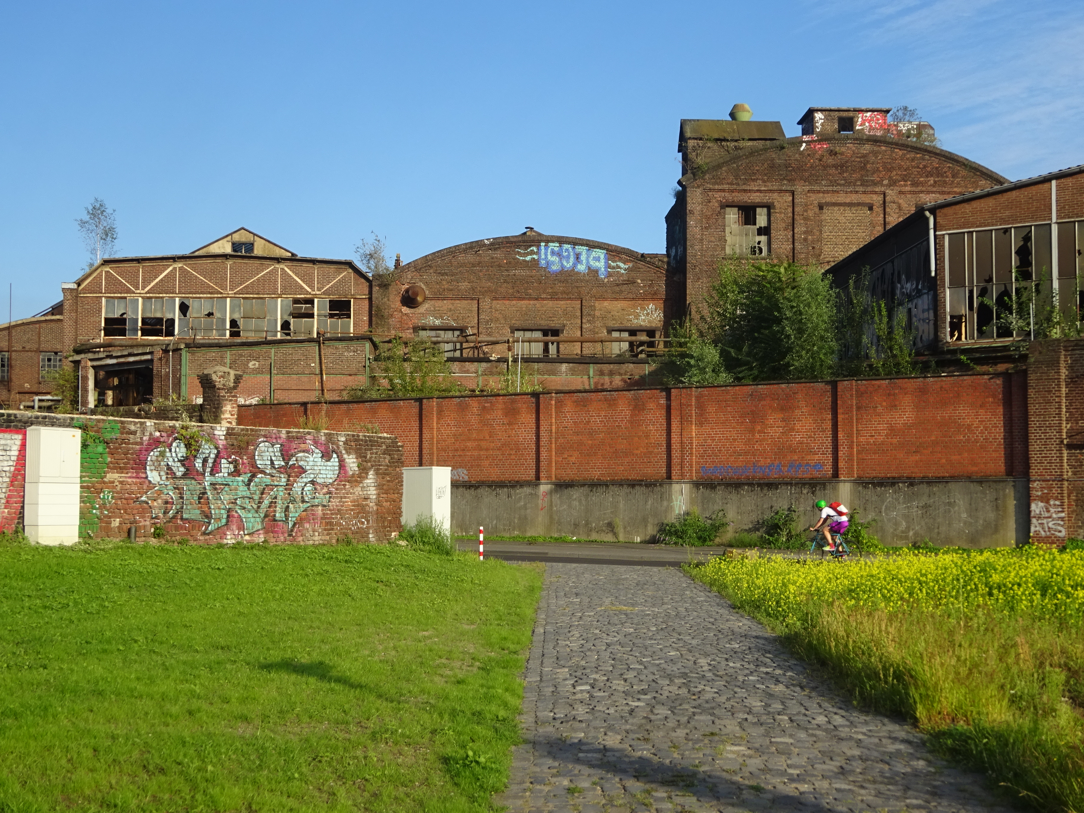 Gasmotorenfabrik Deutz, former casting section